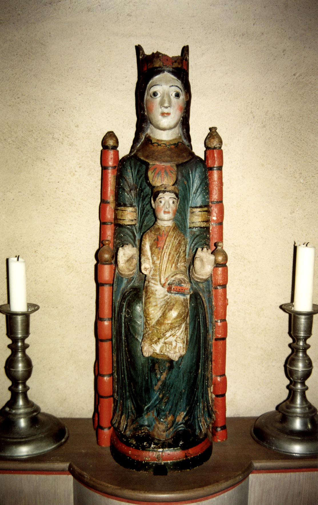 The Madonna sculpture from Heda church, Östergötland, Sweden